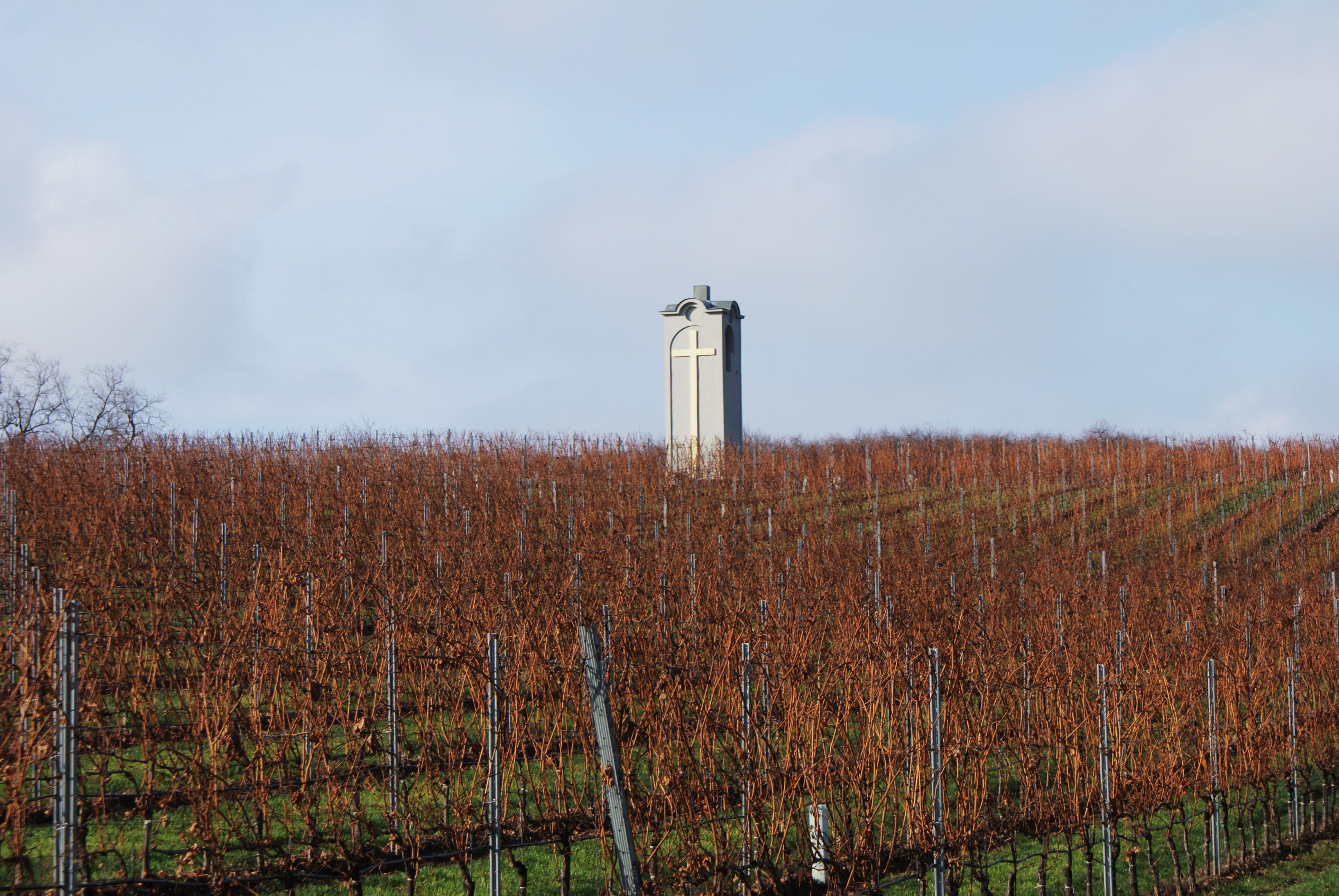 Suchá nad Parnou, a village in Trnava district, Slovakia, a vineyard.